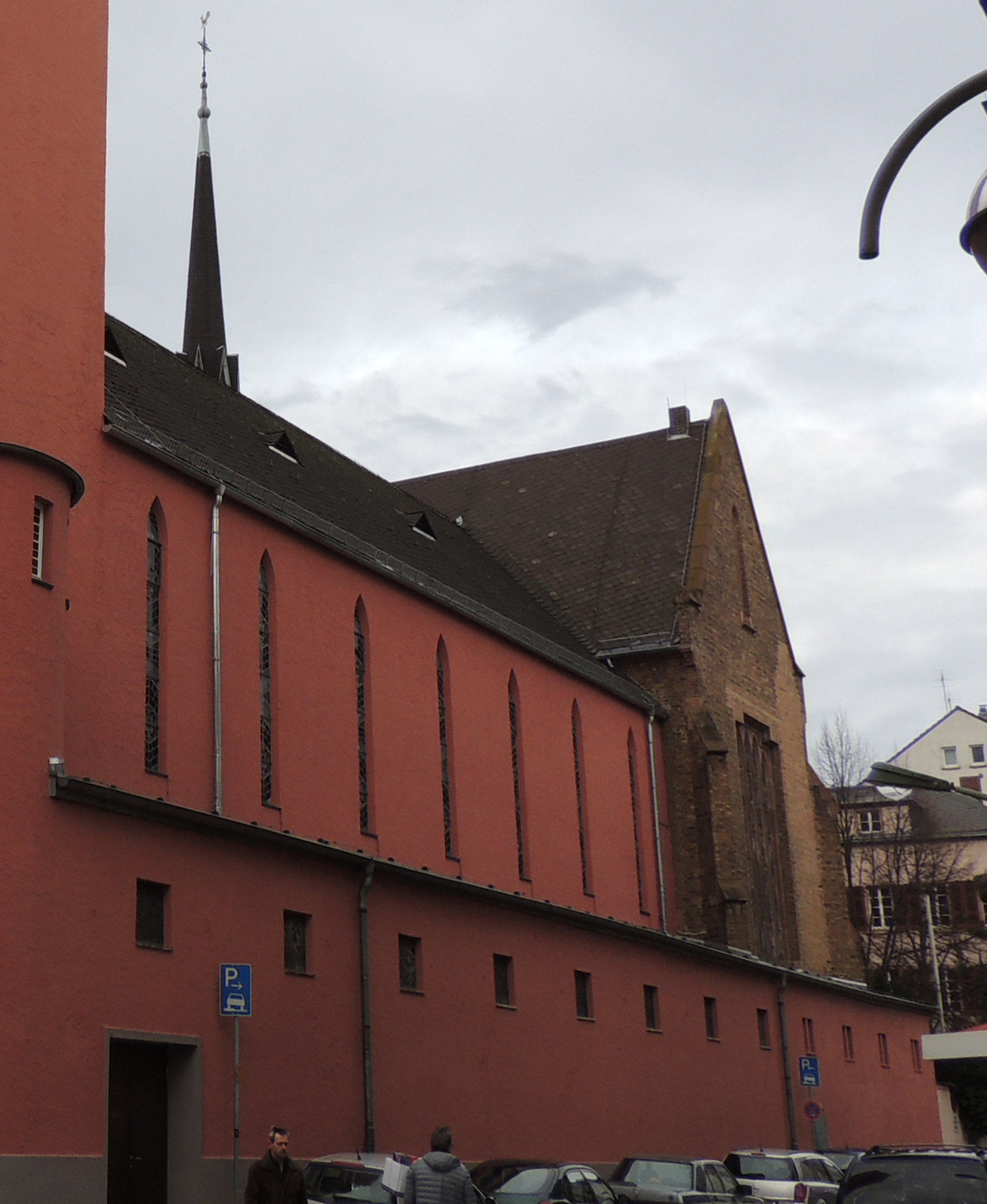 Nave of the new St.-Josefs Church in Frankfurt am Main-Bornheim of 1931, situation of 2013